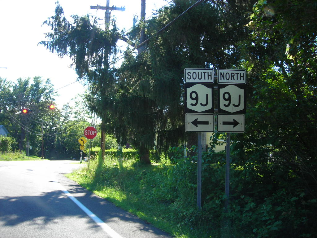 Aging shields for New York State Route 9J on Columbia County Route 26A in Stuyvesant, New York. County Route 26A was formerly New York State Route 398.